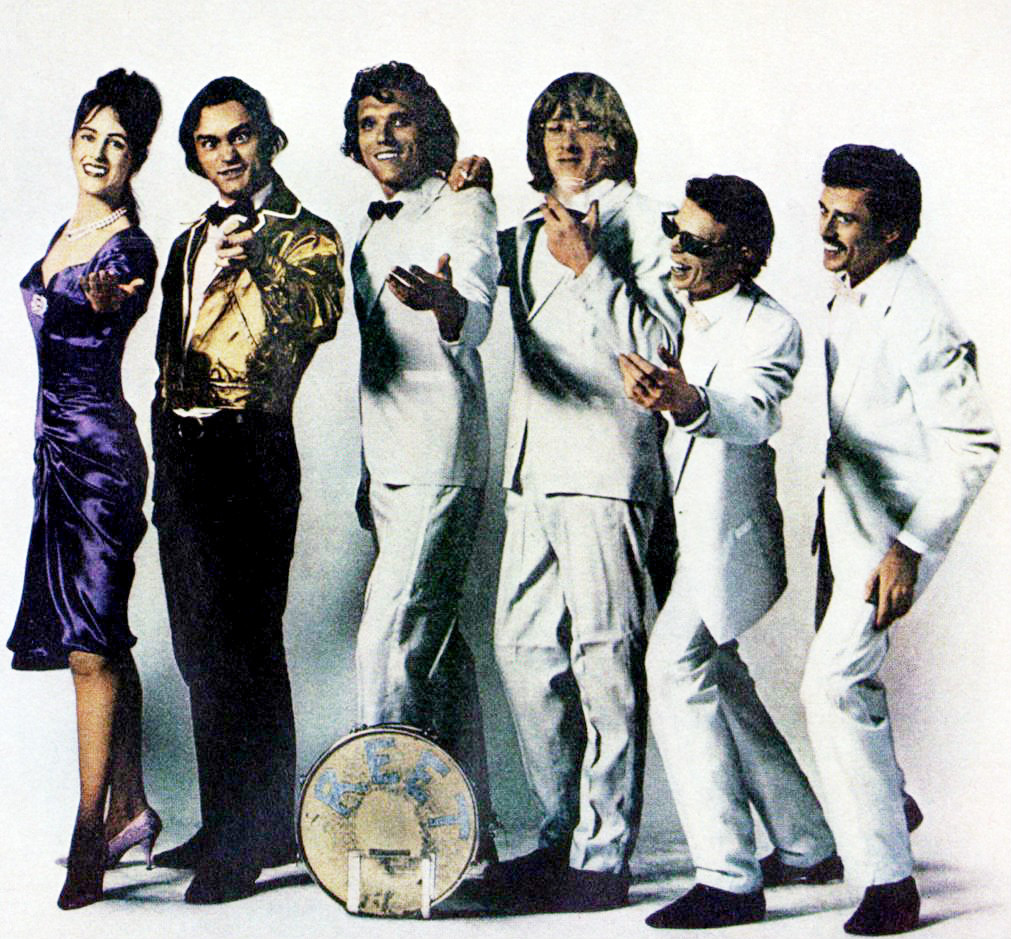 Trade ad for Jefferson Airplane Flight Log album.